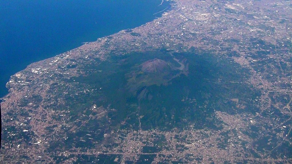 Bird's eye view of Vesuvio, Italy